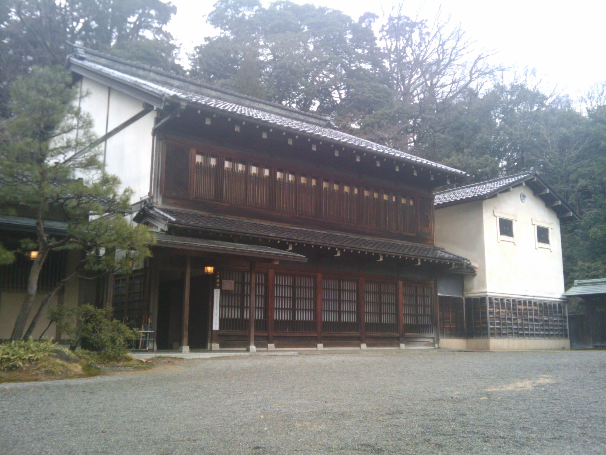 Kanazawa Nakamura Memorial Museum in Kanazawa, Ishikawa, Japan